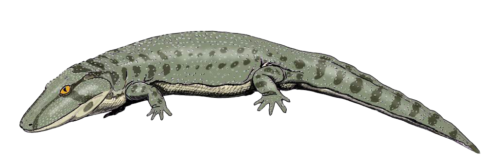 Onchiodon.